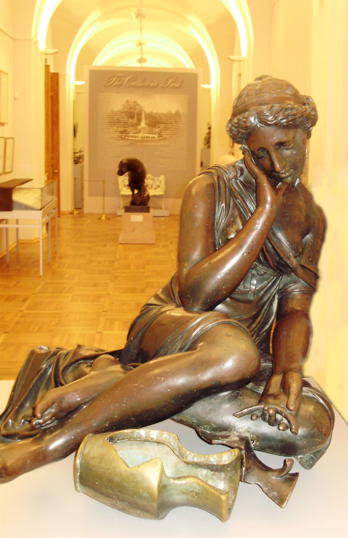 Original of Girl-with-a-pitcher statue that kept the museum-reserve.